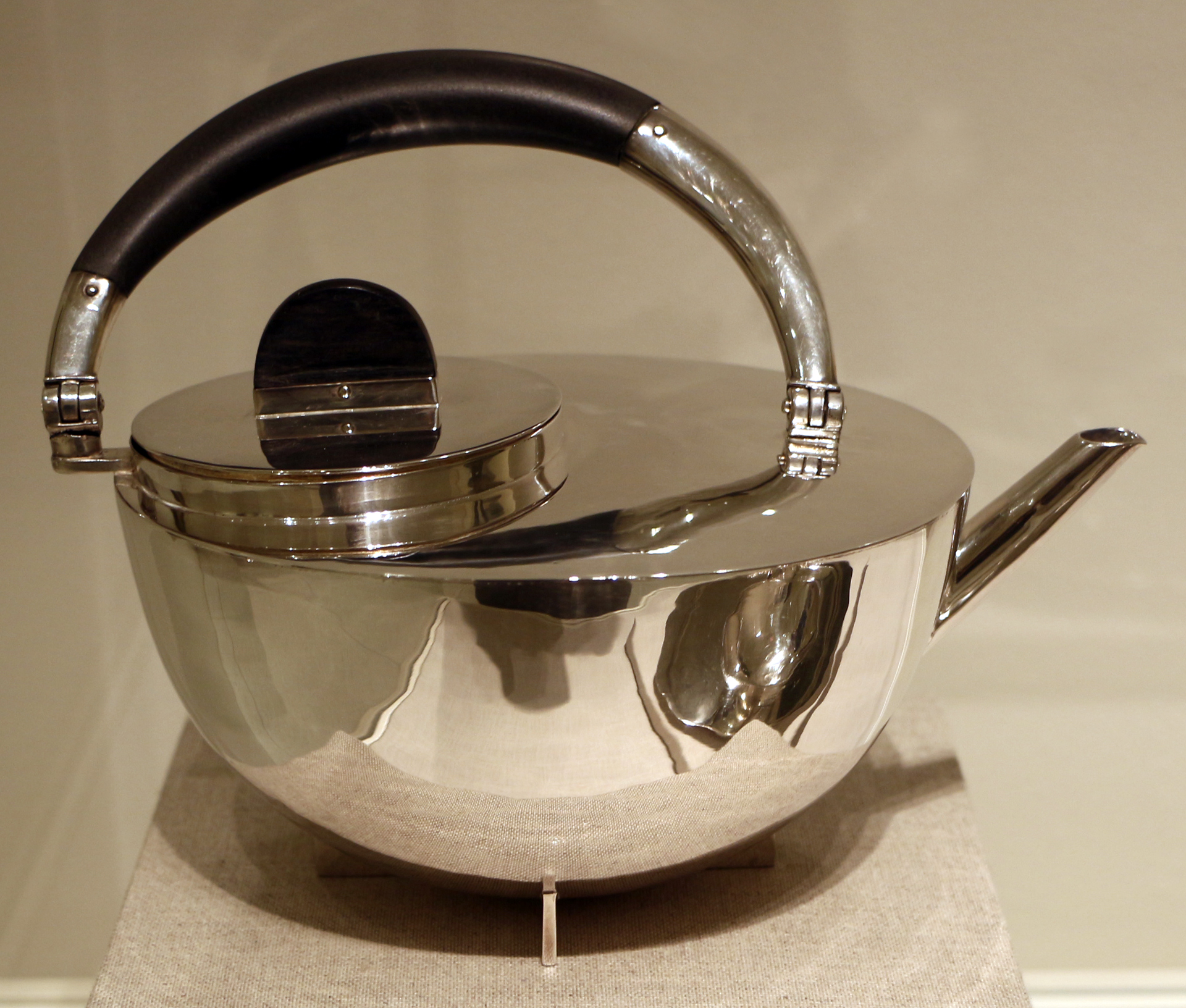 Collections of the Smart Museum of Art